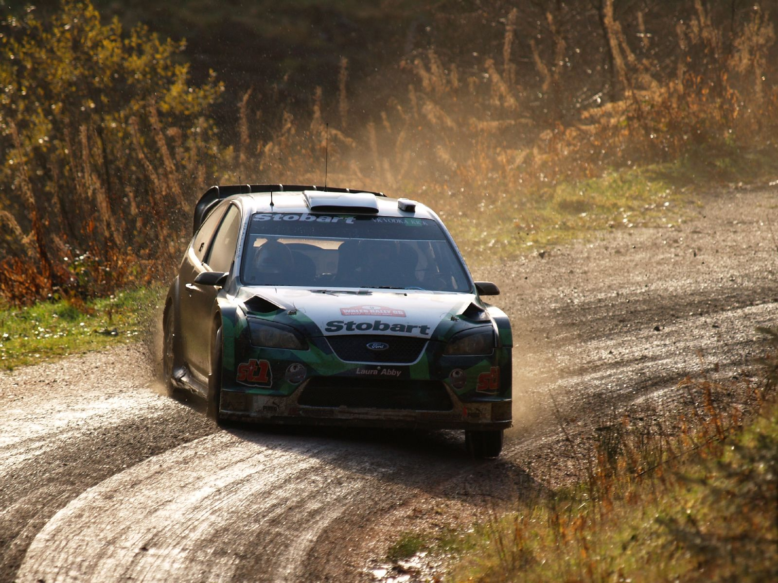 Jari-Matti Latvala driving his Stobart's Ford Focus RS WRC 06 during 2007 Wales Rally GB.